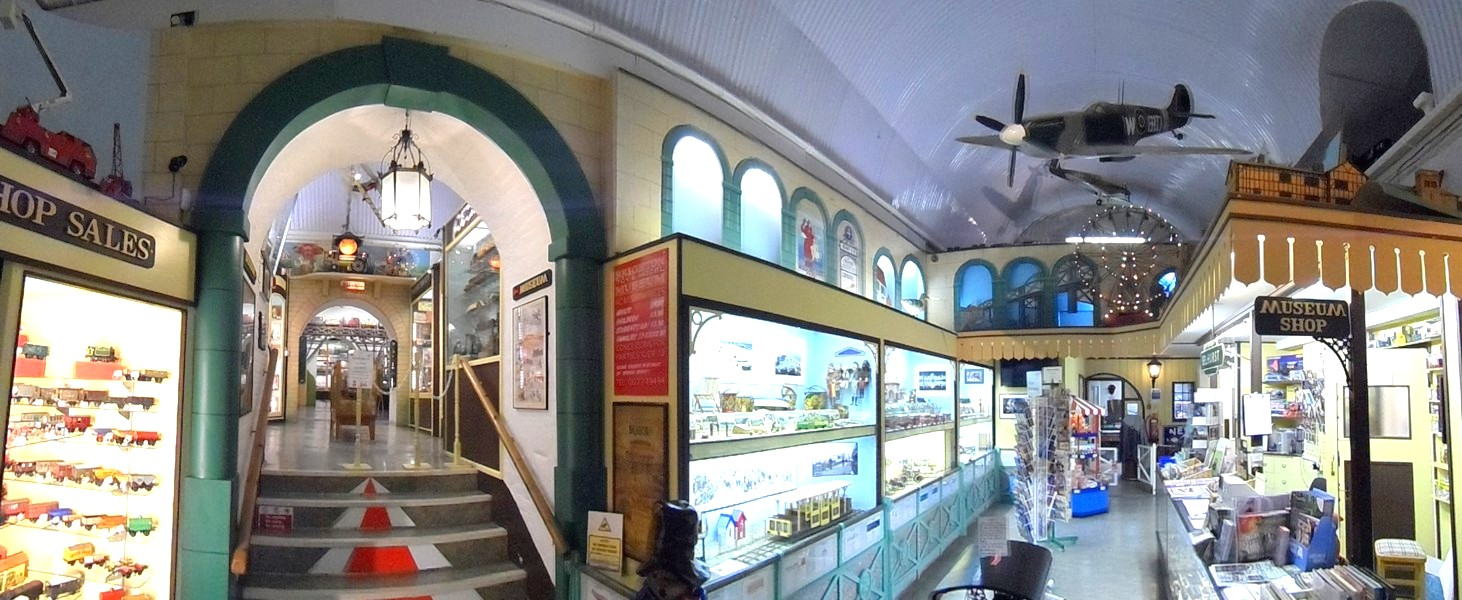 View of the entrance lobby, museum shop and entrance to the ticketed area, Brighton Toy and Model Museum 2014.